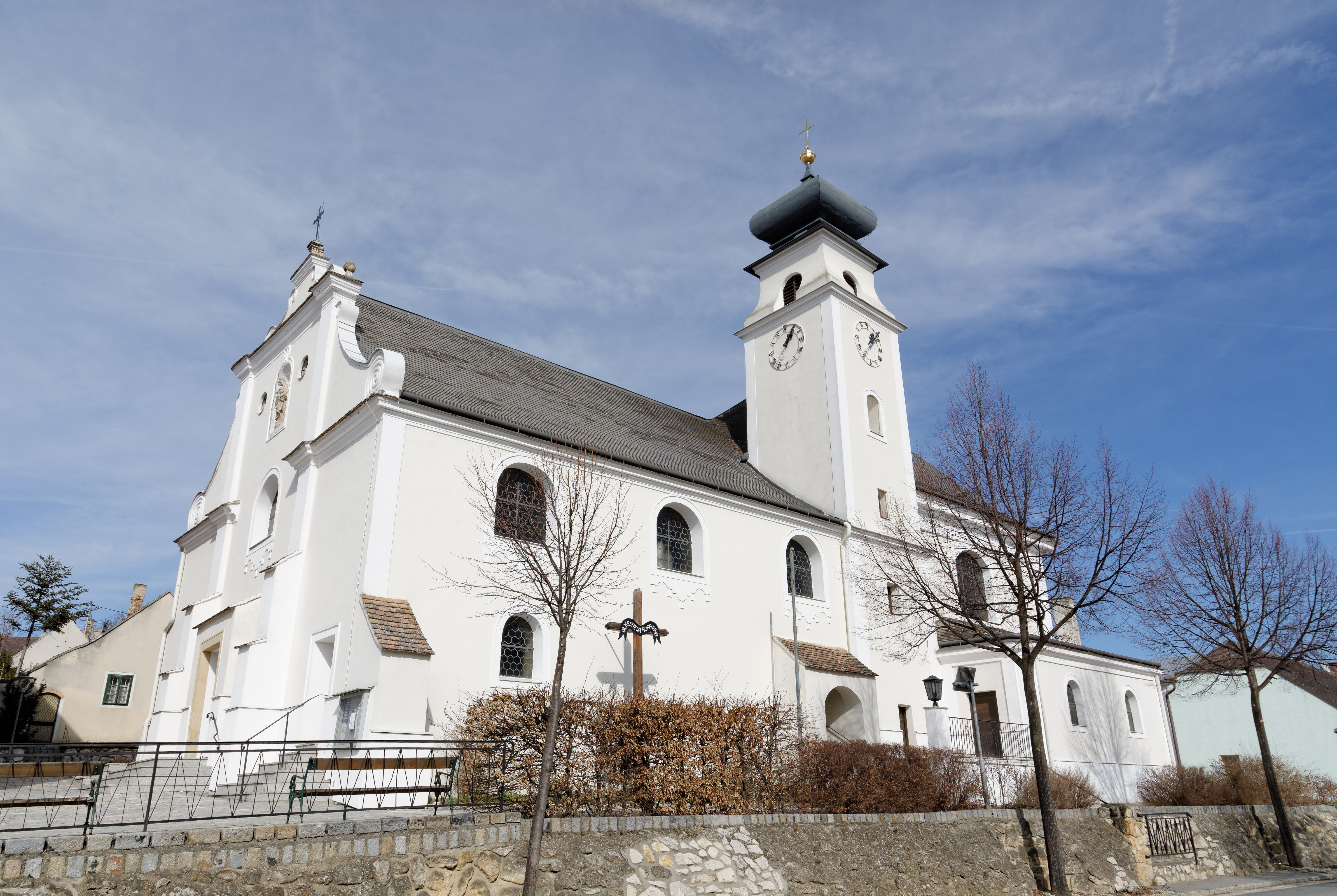 Catholic parish church at Herrnbaumgarten, Lower Austria, Austria